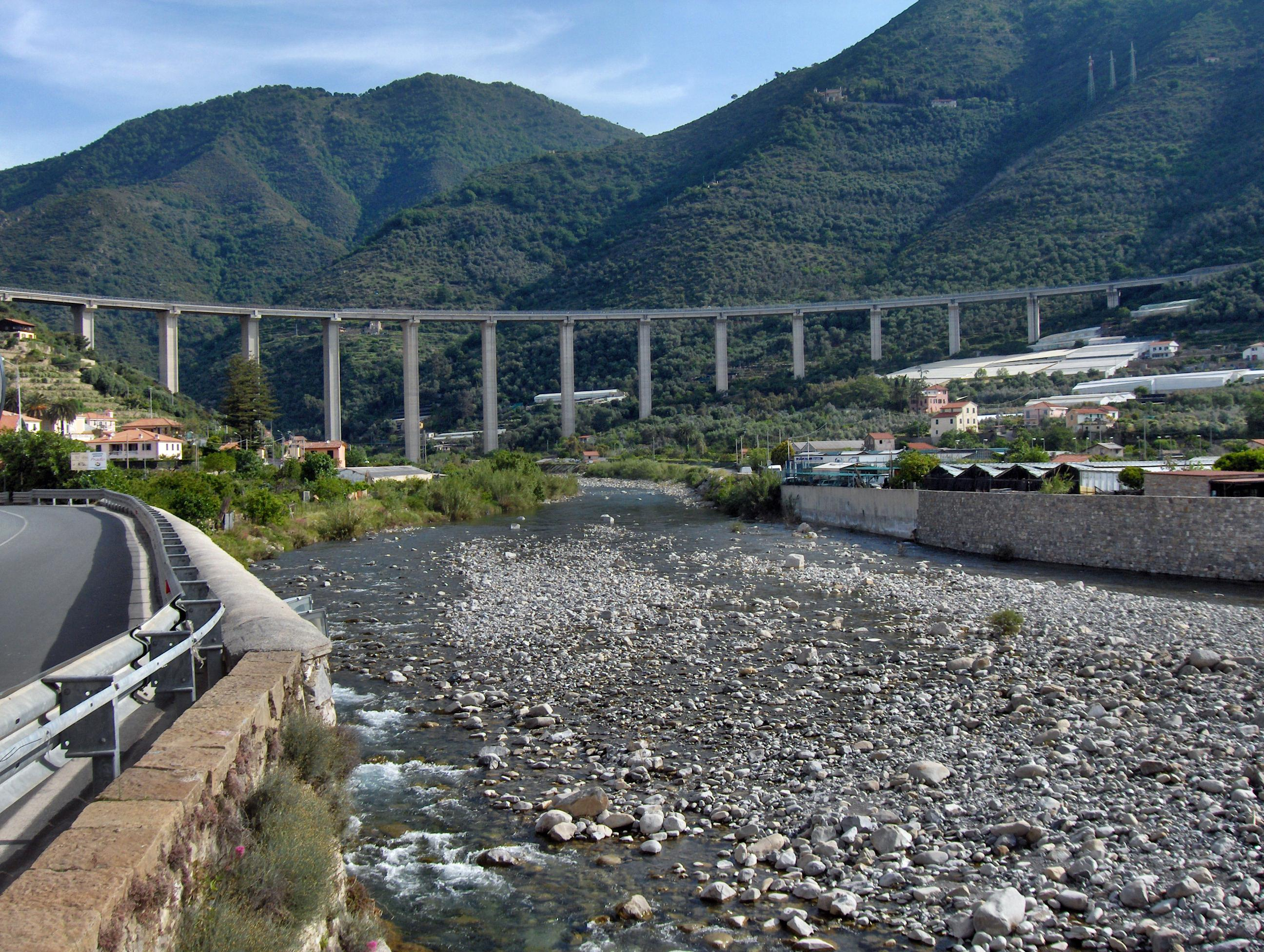 Bridge with coastal highway over the river Argentina, Taggia, Italy